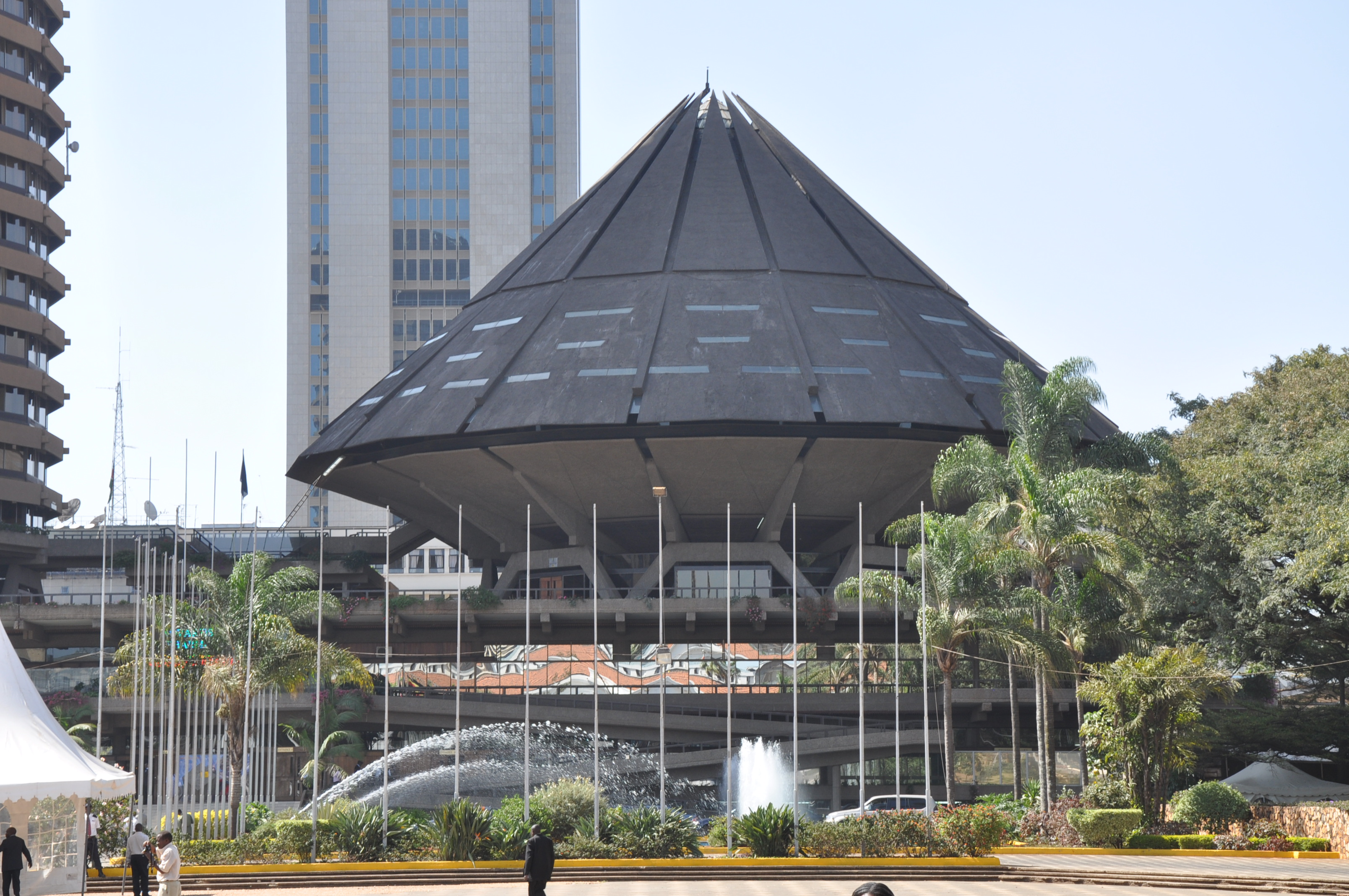 Kenyatta International Conference Centre (KICC) is a 30-storey building located in Nairobi, Kenya. It is located in the central business district of Nairobi. It is a a for conferences, meetings, exhibitions and special events